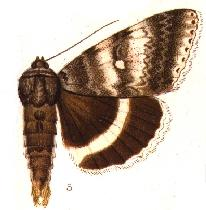 PLATE CXCV.